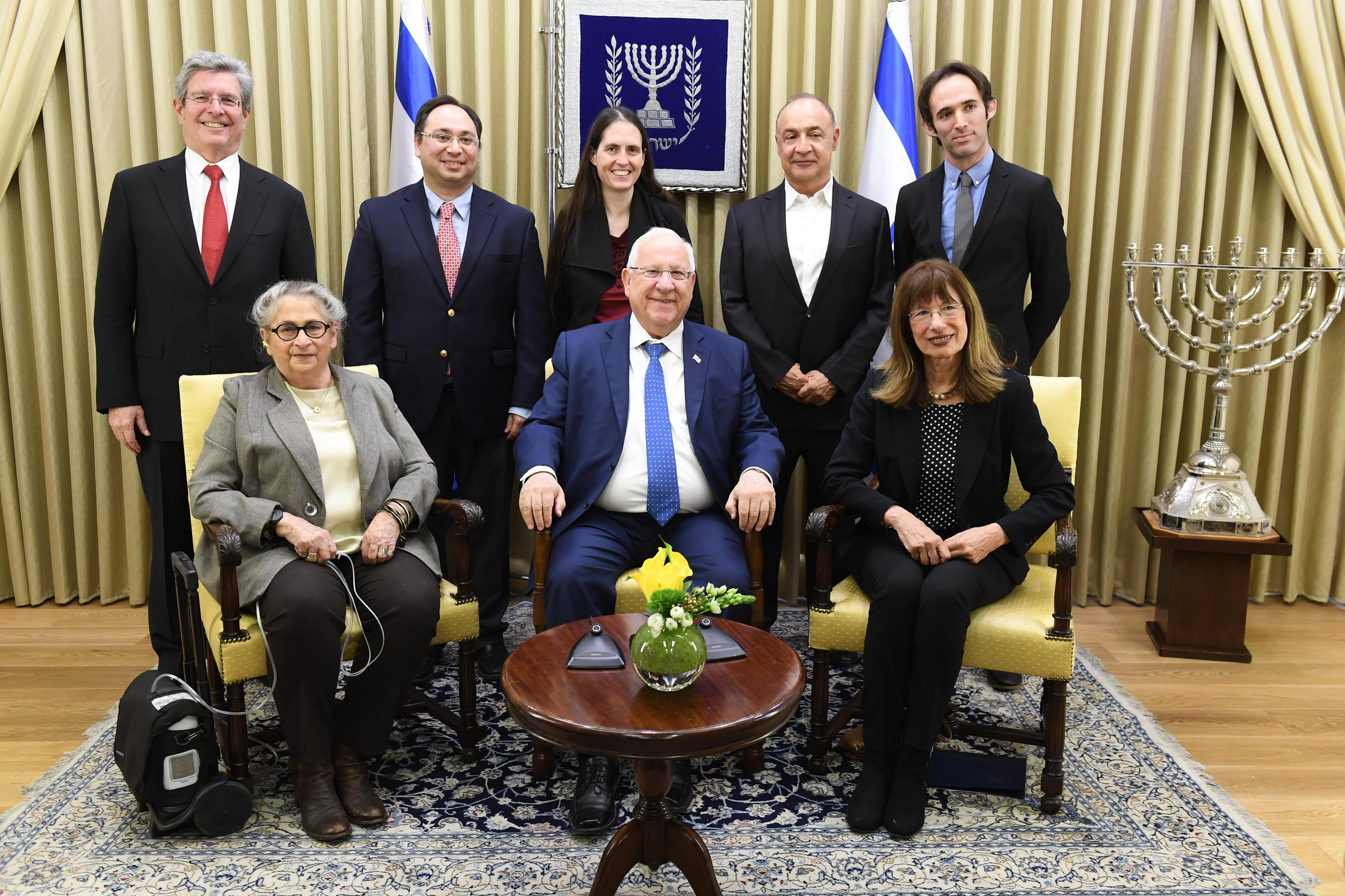 President of Israel, Reuven Rivlin, and his wife Nechama Rivlin host young scientists who have been awarded the Blavatnik Awards for Young Scientists for encouraging research innovation and scientific discoveries. Sunday, February 4, 2018. Photo Credit: Mark Neyman / GPO.